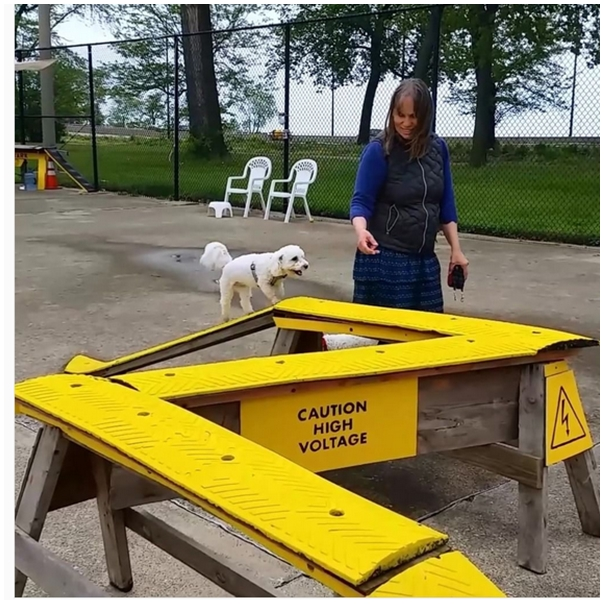 'Lightning Bolt Walk' has two elevated tight turns; constructed of two construction horses and five rubber speed bumps.